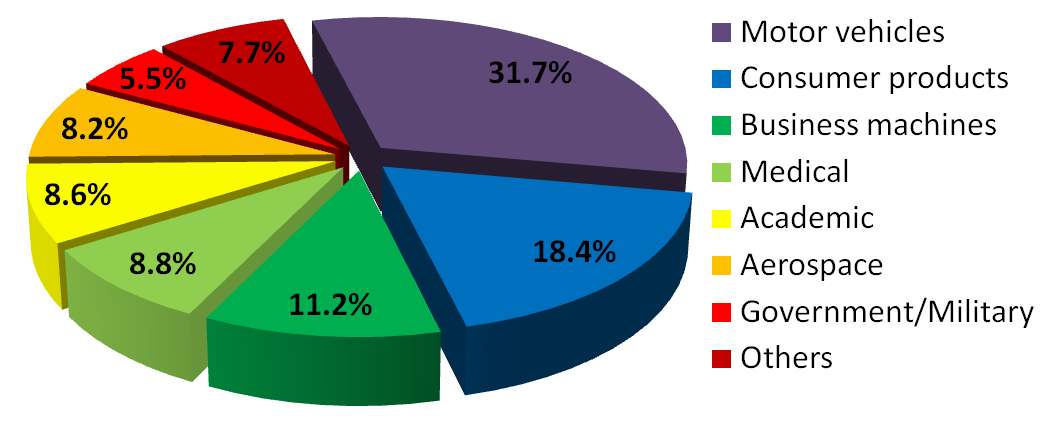 Percentage use of rapid prototyping worldwide as of year 2000. Data based on: D. T. Pham, S. S. Dimov, Rapid manufacturing, Springer-Verlag, 2001, ISBN 1-85233-360-X, page 6